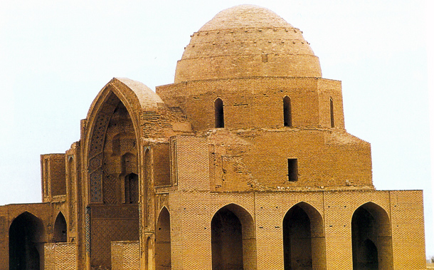 Masjed-i Varamin, a mosque built in the 1320s, is a construction of the Ilkhanid era.